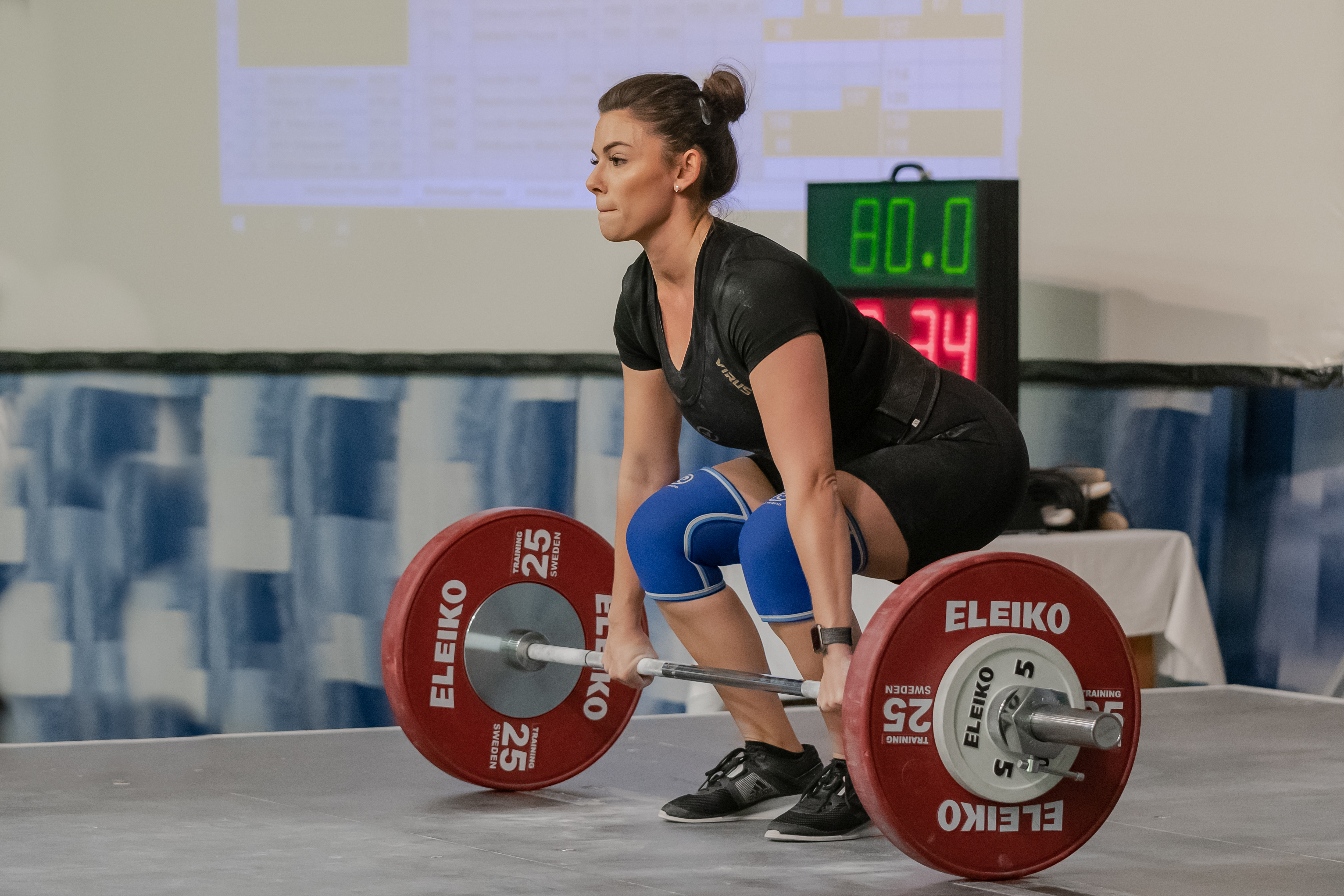 Weightlifting finals Austrian Bundesliga 2018, Sportpark Auwiesen, Linz Upper Austria/ Clean and jerk / Patricia Bernhaupt, WKG HSV Langenlebarn / FAC Gitti-City